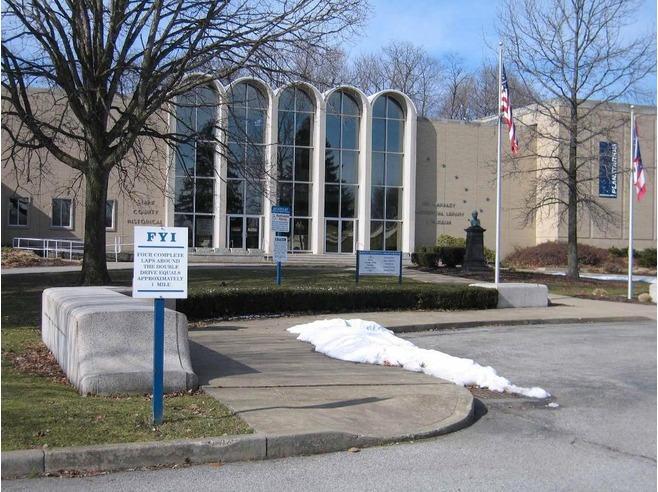 winter morning at the William McKinley Presidential Library and Museum